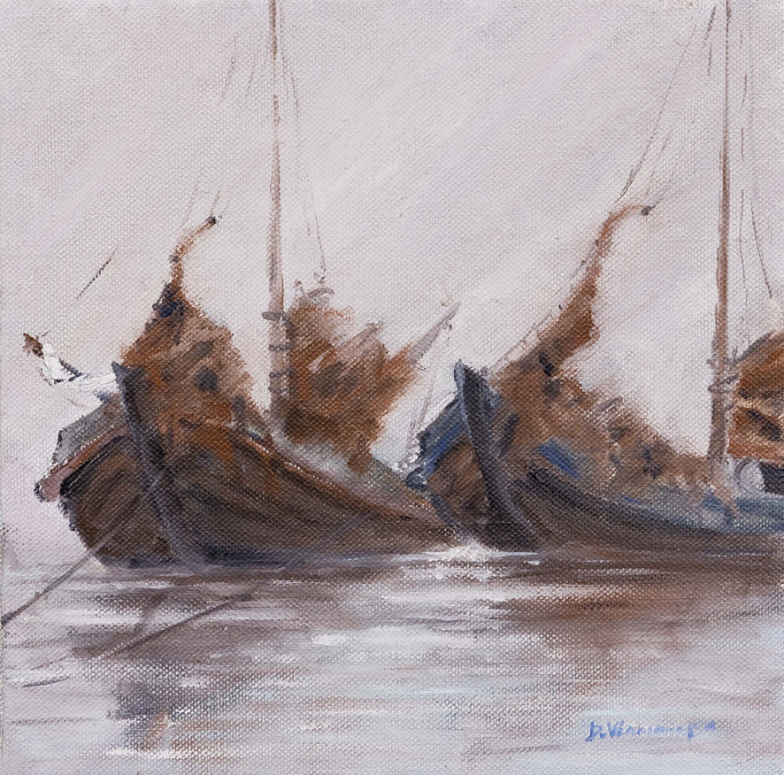 Pair of anchored smacks